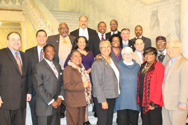 delgates from baltimore city to the maryland general assembly